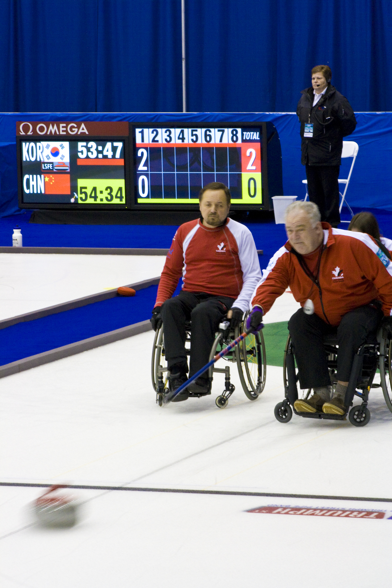 Chris Sobkowicz (left) and Jim Armstrong (right)